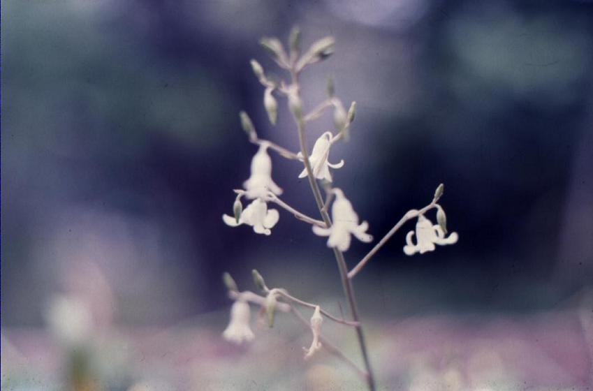 Conanthera johowii, central Chile